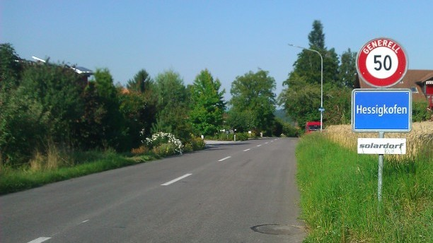 Village entrance of Hessigkofen, canton of Solothurn, Switzerland.